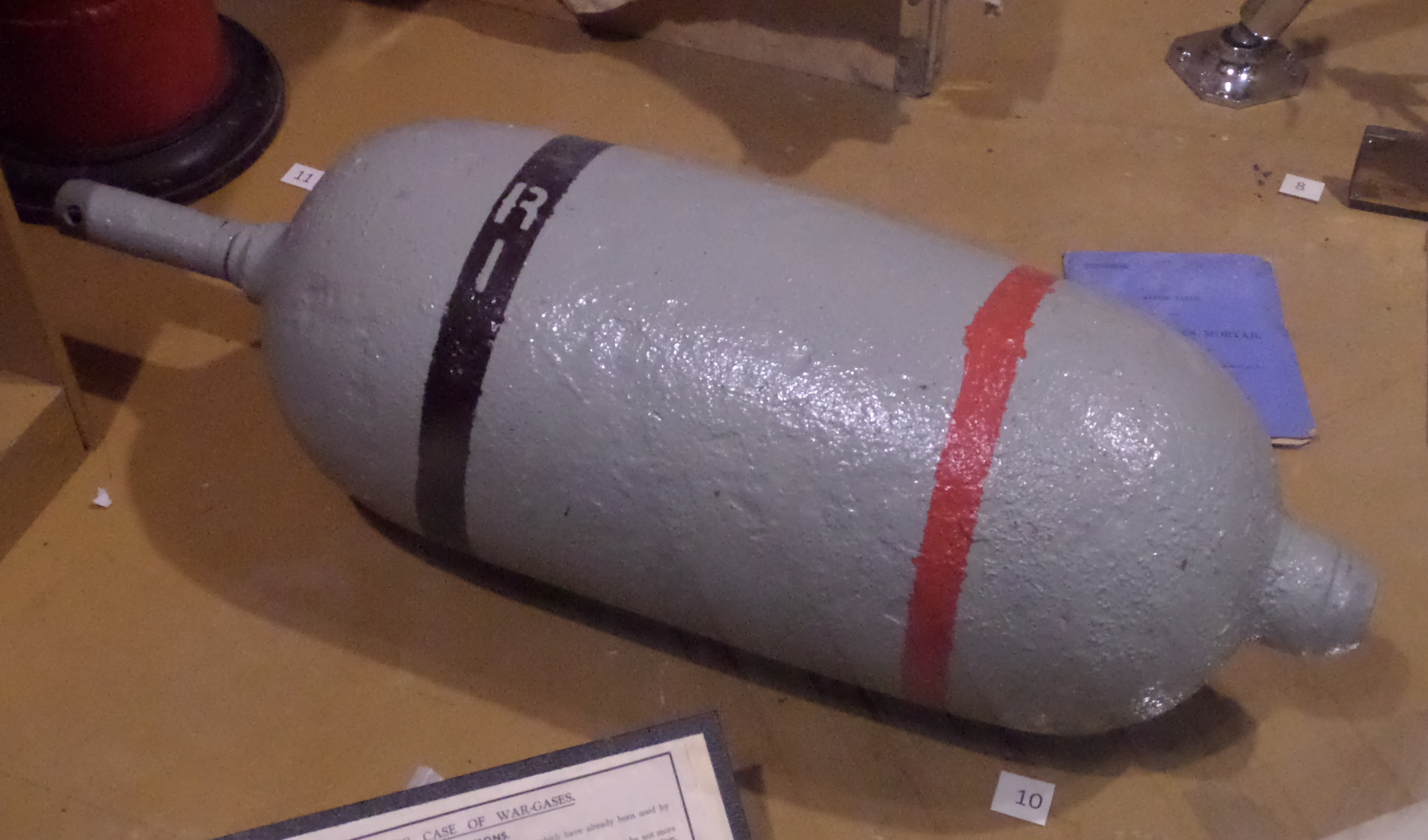 Livens projector gas filled projectile. On display at the Royal Engineers Museum.